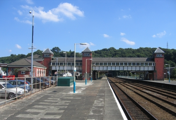 Bangor Station This large ex-LNWR built station is situated between two tunnels as it crosses the valley. This view is looking in the "up" direction, SE as the line heads towards Chester.